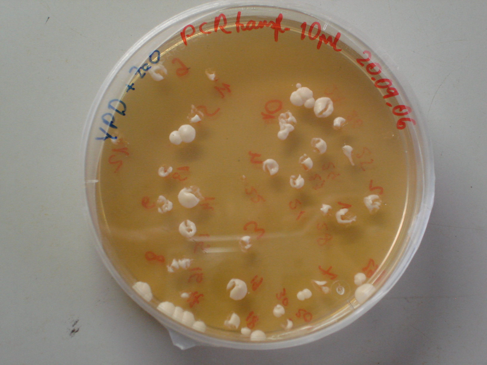 Yeast culture plate